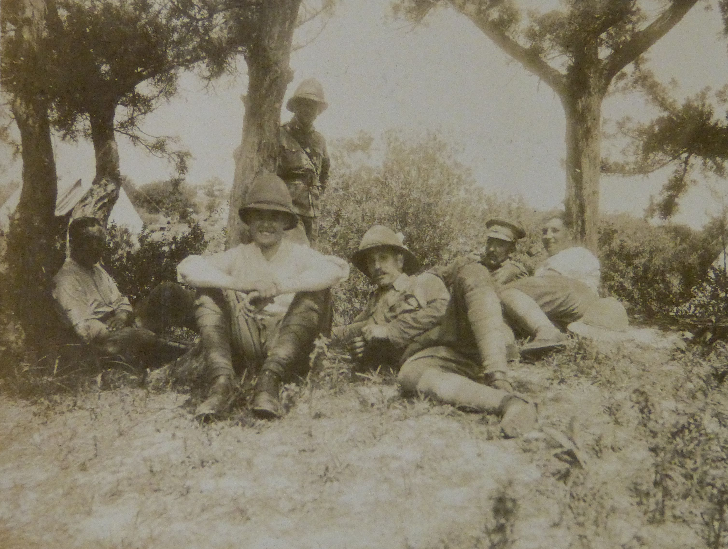 Battalion Training at Tucker's Town, Bermuda of the 3rd Battalion Royal Fusiliers (part of the Bermuda Garrison) in 1904. Officers shown are: Second-Lieutenant Wilfred George Lucas, Lieutenant Cyril Henry Wickham, Major Fitzroy Maurice Favre Scoones, Second-Lieutenant George Ernest Hawes, Lieutenant Harry William Geddes Burnett Hitchcock, Second-Lieutenant Edward Græme Ozanne